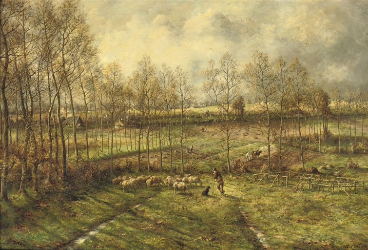 Painting by Belgian artist Marie Collart